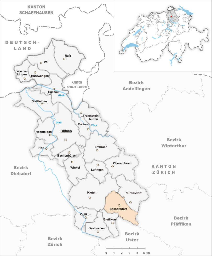 Municipality Bassersdorf